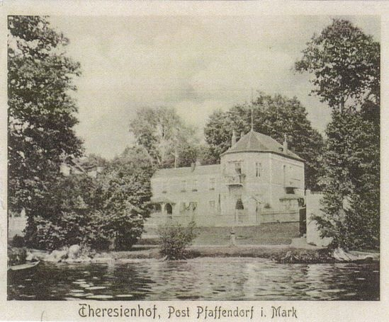 Theresienhof about 1900. Theresienhof is today a part (settlement, estate; german: Wohnplatz) of Bad Saarow, District Oder-Spree, Brandenburg, Germany. The in the image mentioned Pfaffendorf is a part of Rietz-Neuendorf; it was in this time the post office for Theresienhof. Originating as the watermill Pieskow at the eastern bank of the Scharmützelsee the Theresienhof was an agricultural establishment for a long time. Under the name Theresienhof it was first mentioned in documents in 1851. Since 1918 it was used as recreation resort, holiday home or educational training center. In 2008 the main building (a villa or manor house, often referred to as a castle) was demolished. A holiday village, named Schlosspark Bad Saarow, with about 140 holiday houses and accomodations in scandinavian style has been created on the site of the Theresienhof since 2008.